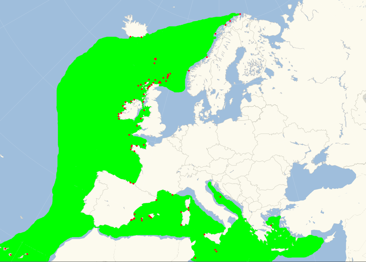 range map for the European Storm Petrel Hydrobates pelagicus